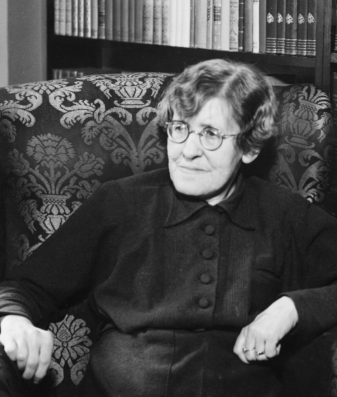 crop of a picture of Klara Elisabeth Johanson (6 October 1875 – 8 October 1948) was a Swedish literary critic and essayist.